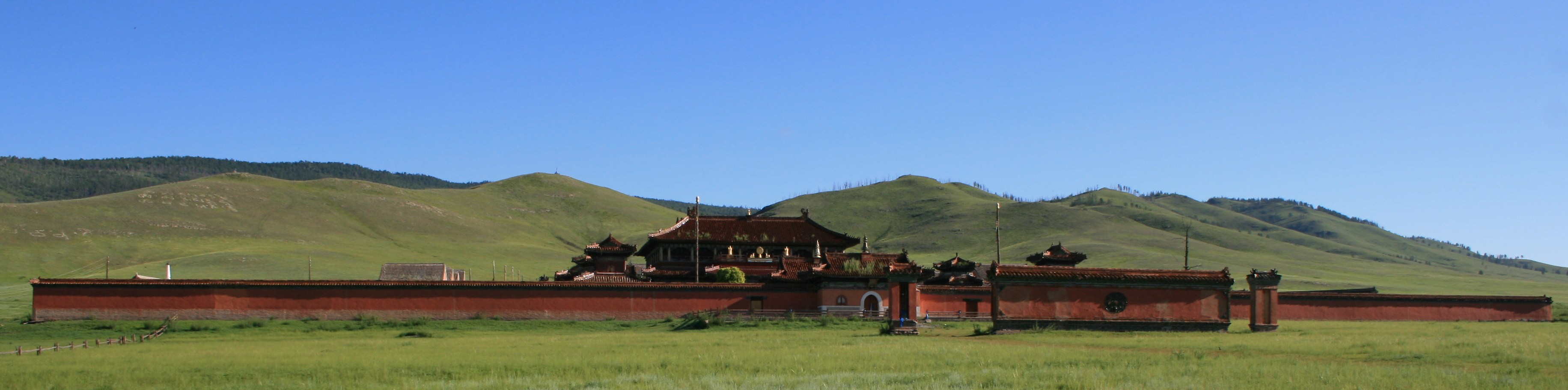 Frontal view of Amarbayasgalant Khiid, Selenge aimag, Mongolia